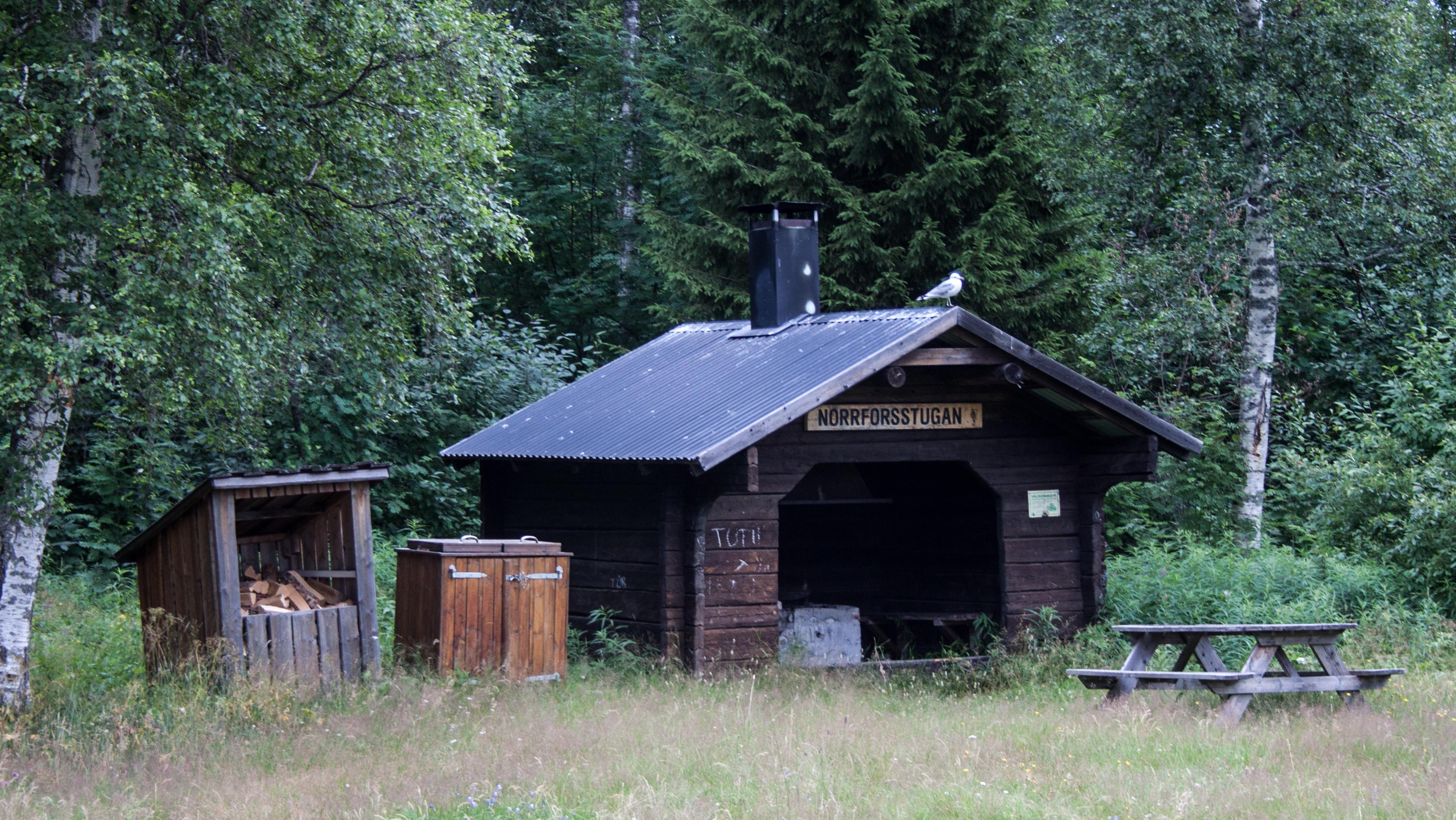 Archeological site of the Norrfors petroglyphs